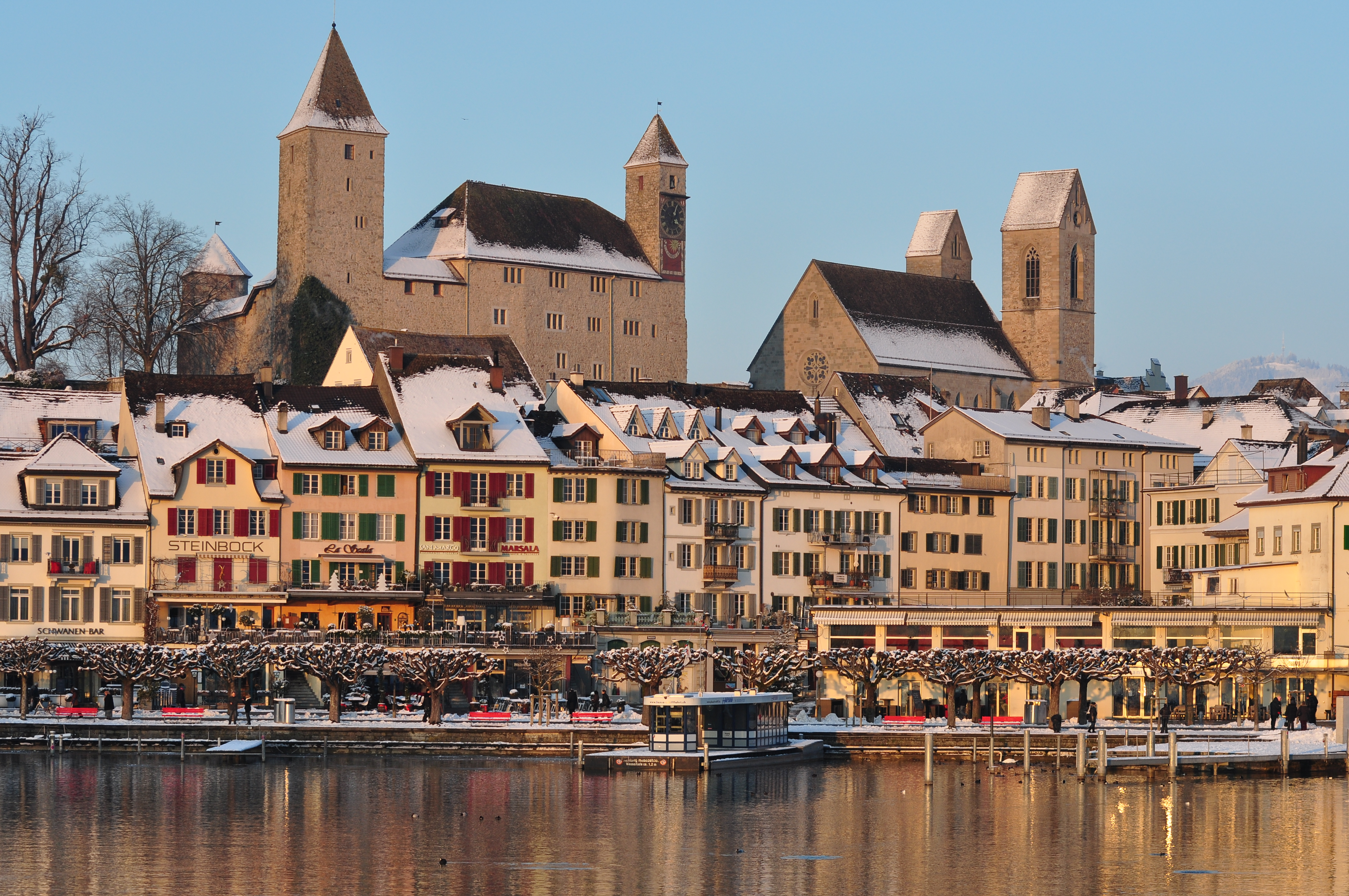 Rapperswil Altstadt, as seen from Seedamm, Fischmarktplatz to the right, Lindenhof, Rapperswil castle and Stadtpfarrkirche (St. John's Church) respectively Bachtel mountain (to the right) in the background.